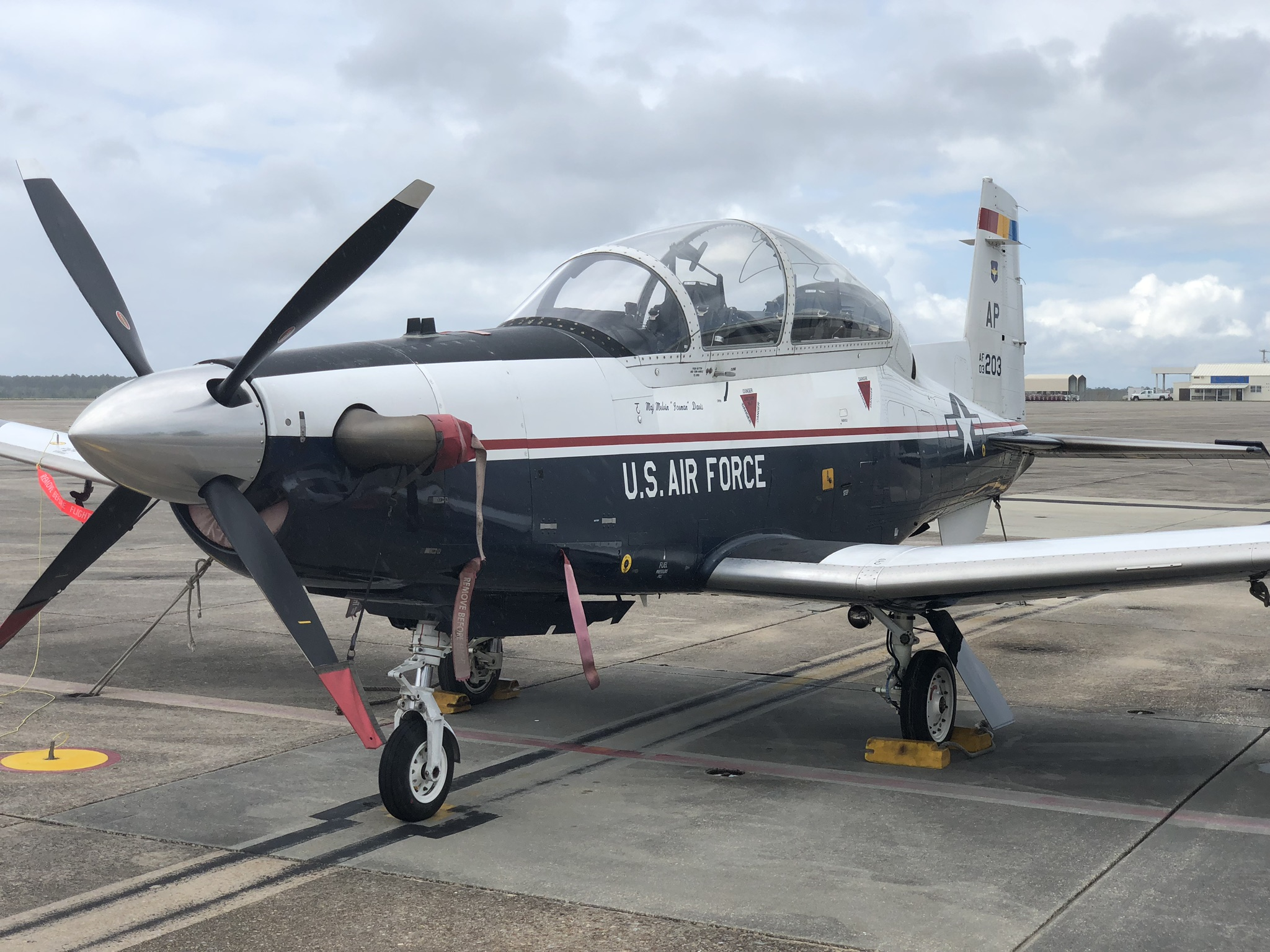 455th Flying Training Squadron, T-6A Texan II trainer aircraft